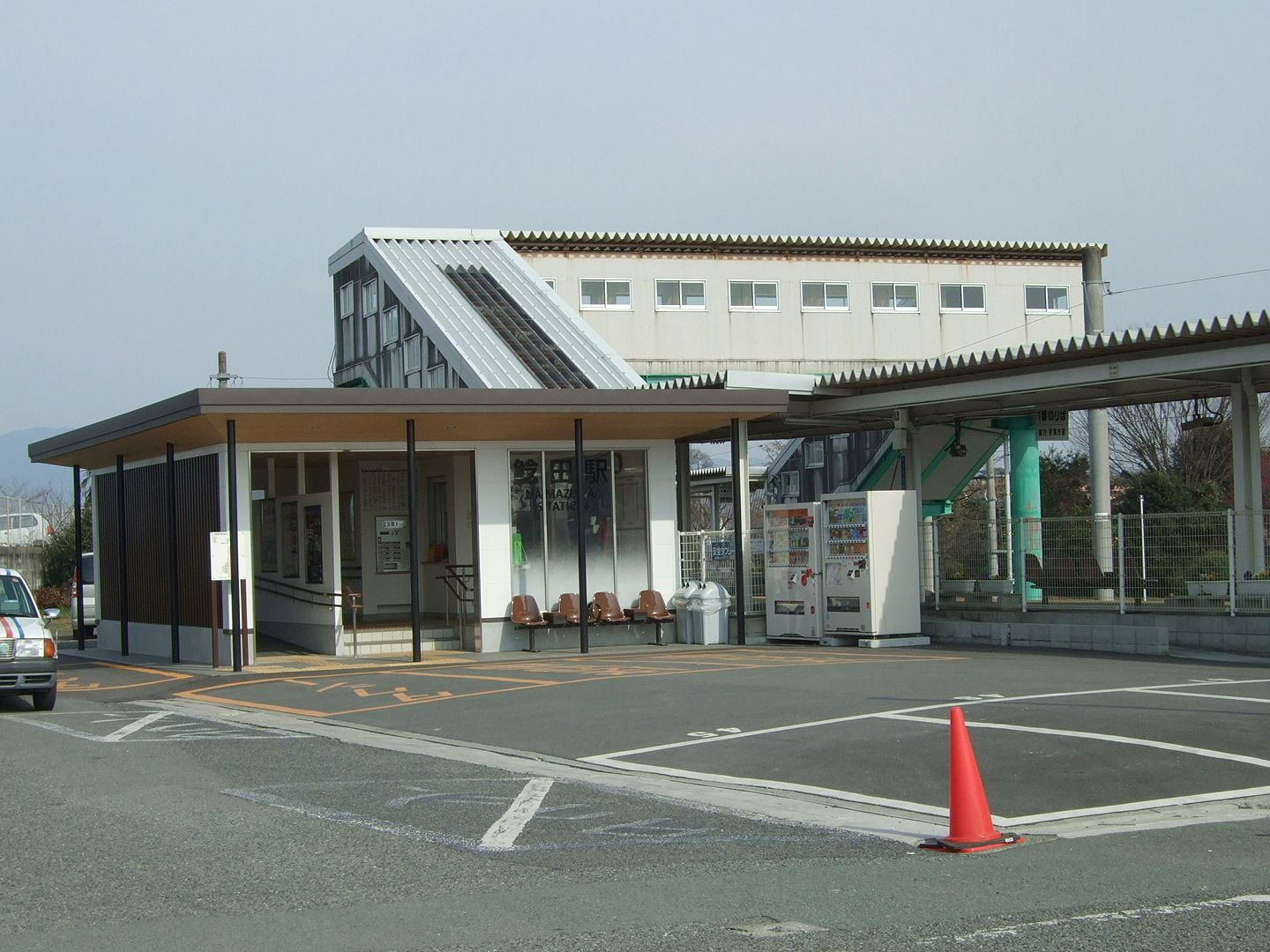 New building of Namazuta Station on the Chikuho Main Line, in Iizuka City, Fukuoka Prefecture, Japan